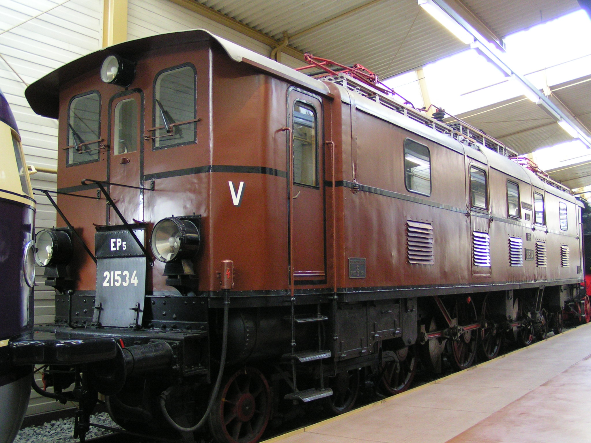 Class EP5 electric locomotive of the former Deutsche Reichsbahn. Later called class E 52 or class 152. Seen at DB-Museum, Nuremberg, Germany